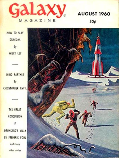 Cover of Galaxy, August 1960